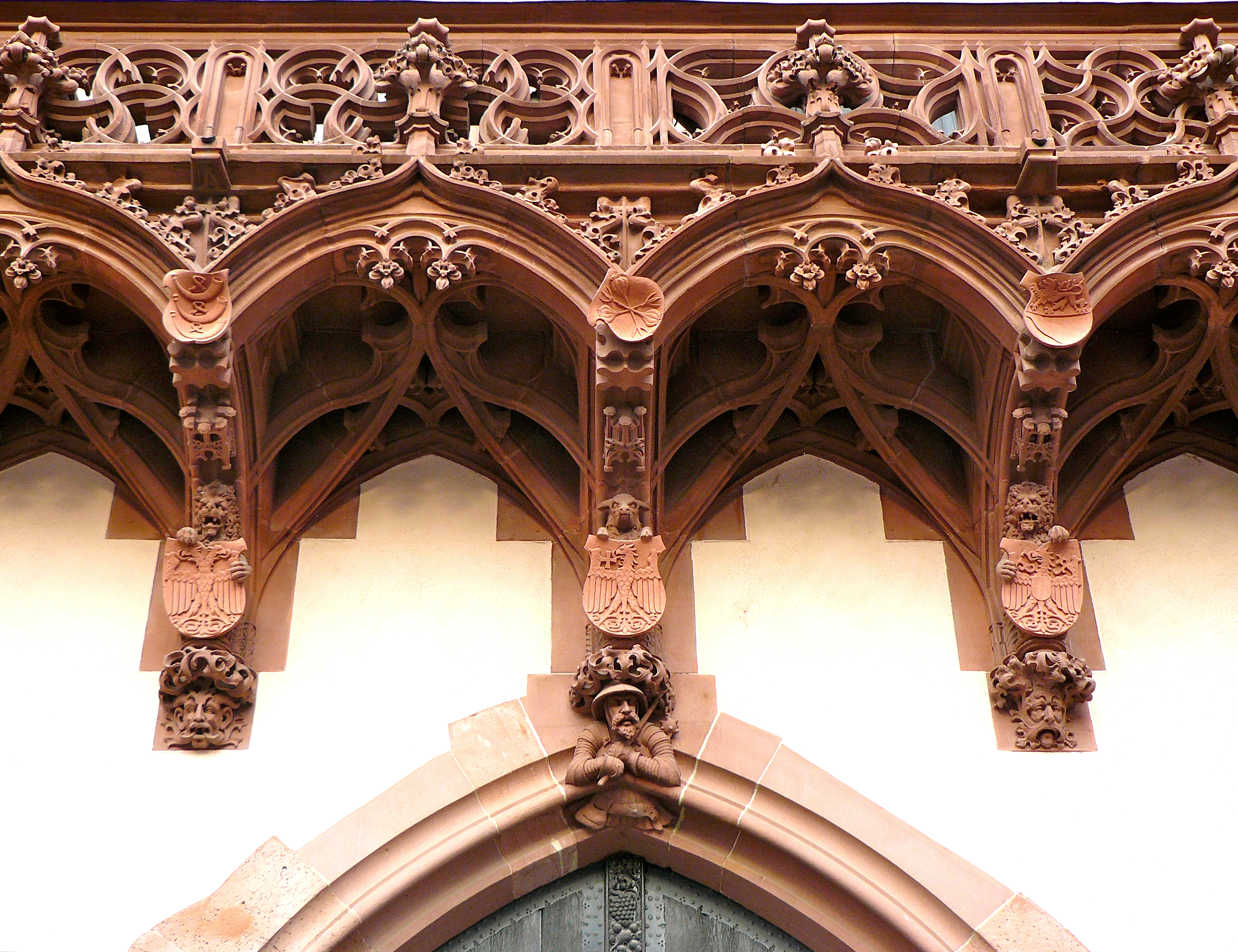 City hall Römer – detail of the underside of balcony. Frankfurt, Hesse, Germany